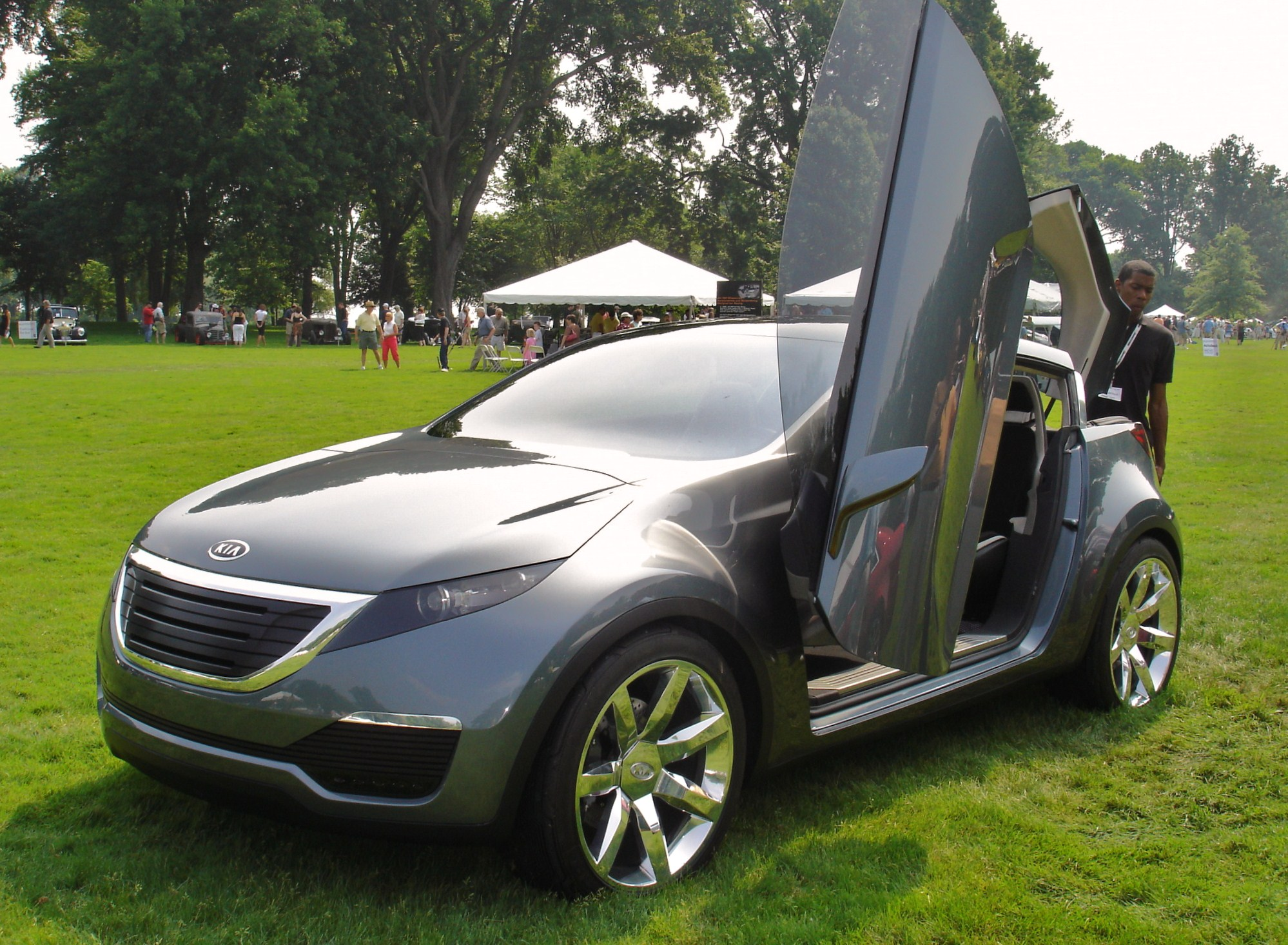 The Kia Kue Concept